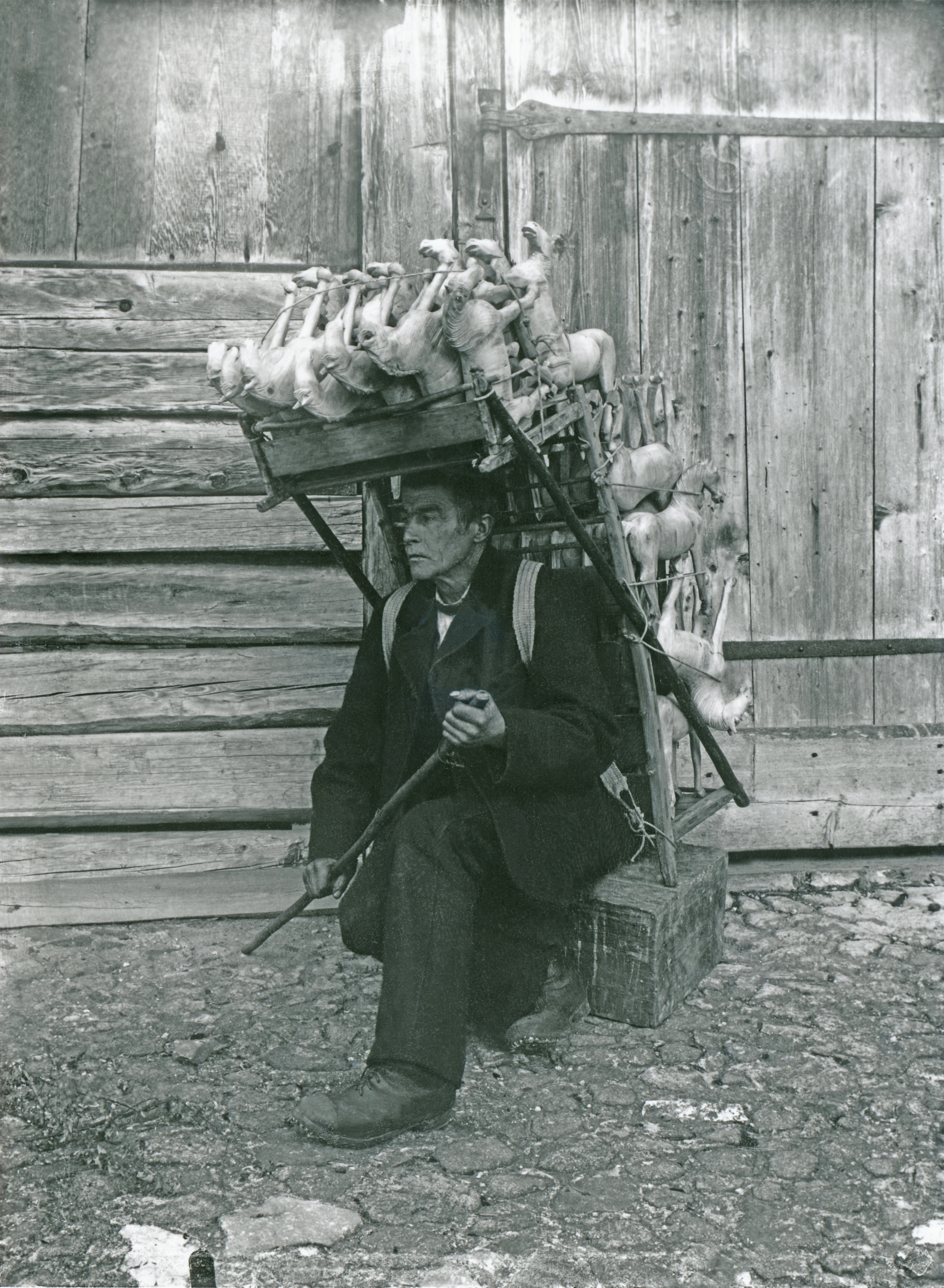 Man carrying carved horses in Val Gardena (Dolomites) around 1880